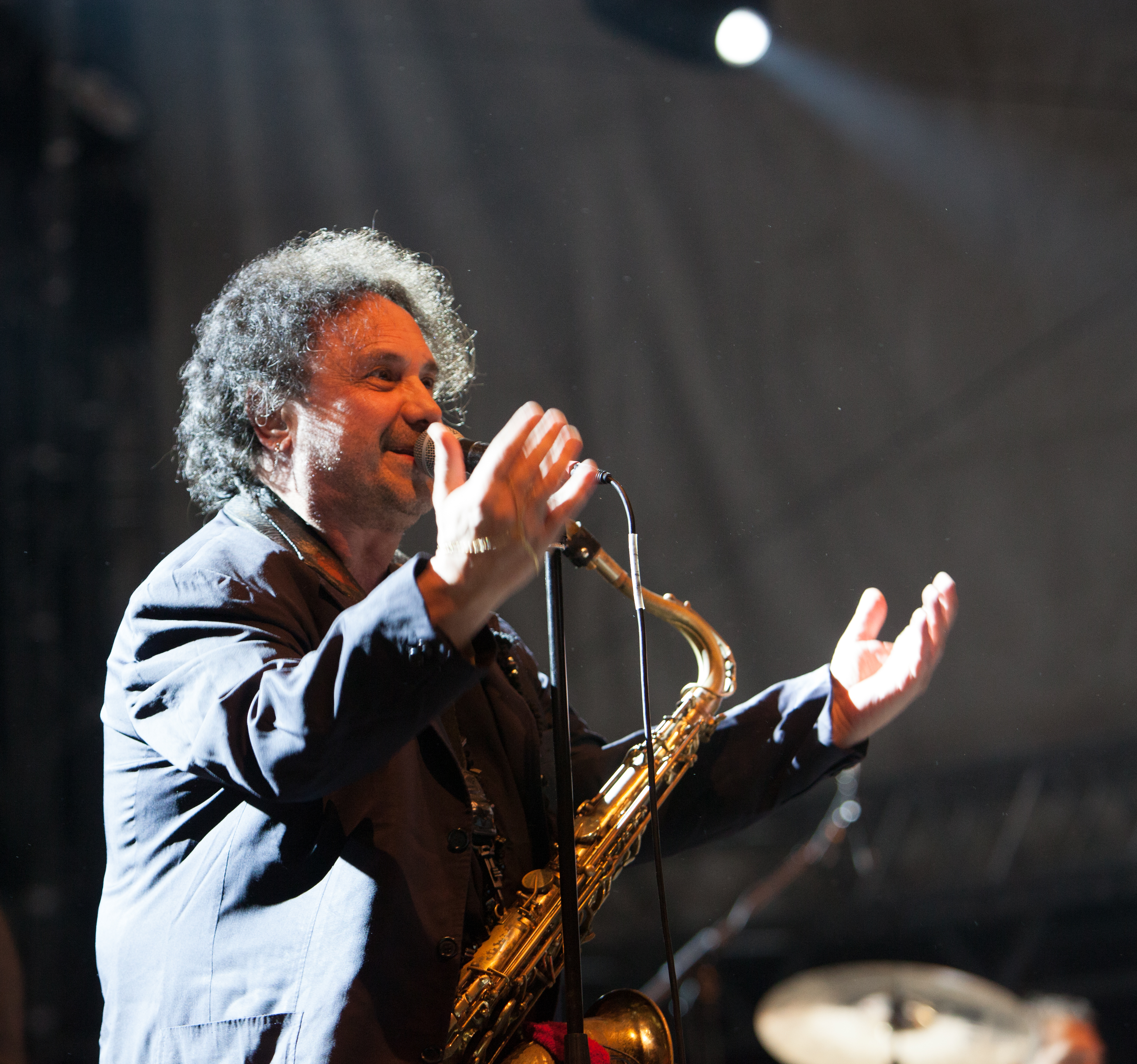 Enzo Avitabile at the TFF Rudolstadt 2013